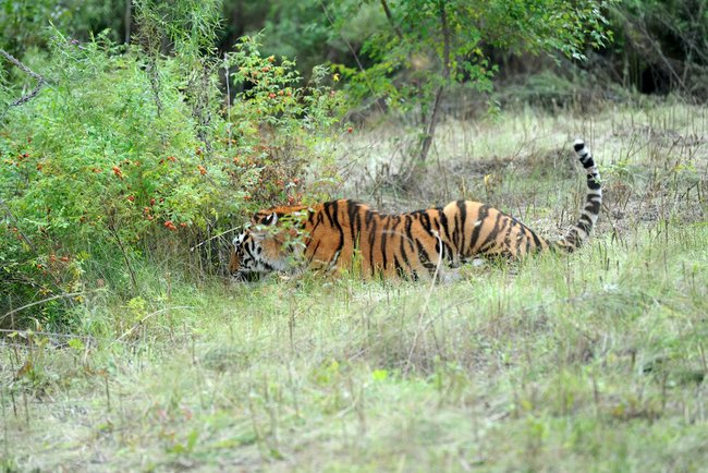 Rehabilitation and Reintroduction Center for Amur (Siberian) tigers in the village of Alekseevka, Primorsky Territory, Russia. About 450 Amur tigers live in the Primorsky and Khabarovsk territories of the Russian Far East.